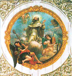 Saint John of Matera in an Italian painting of the 18th cent.